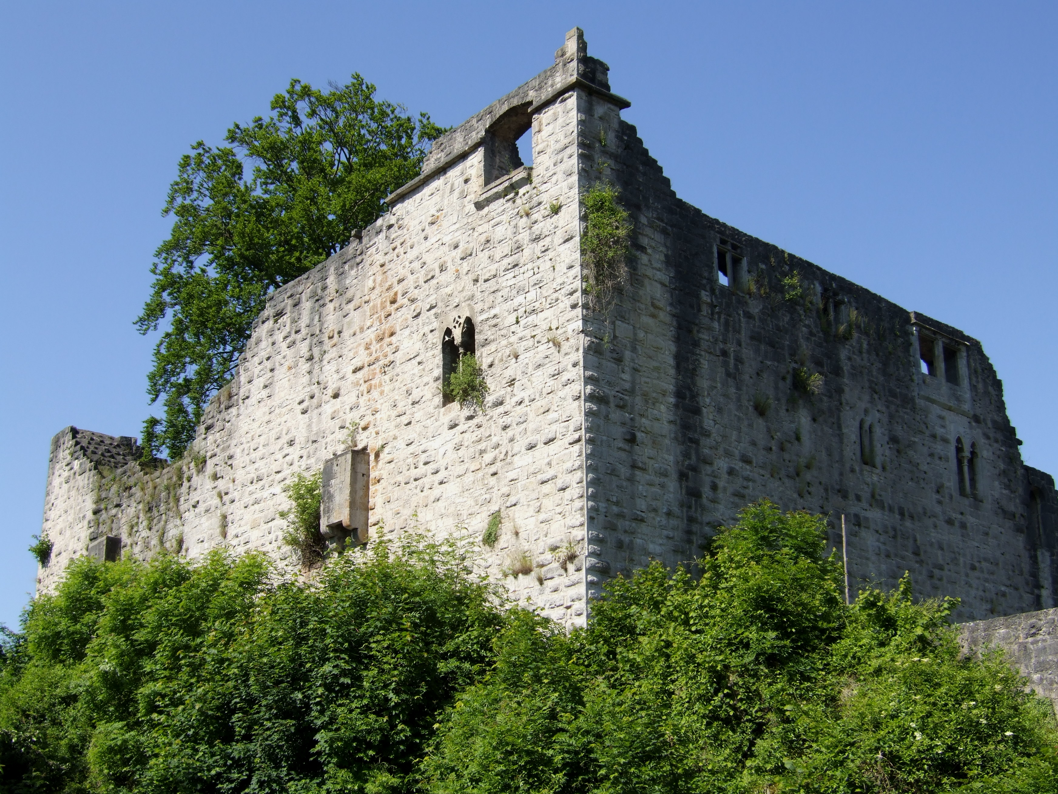 Leofels Castle: shield wall